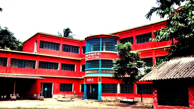 Keshabpur High School Cover Picture